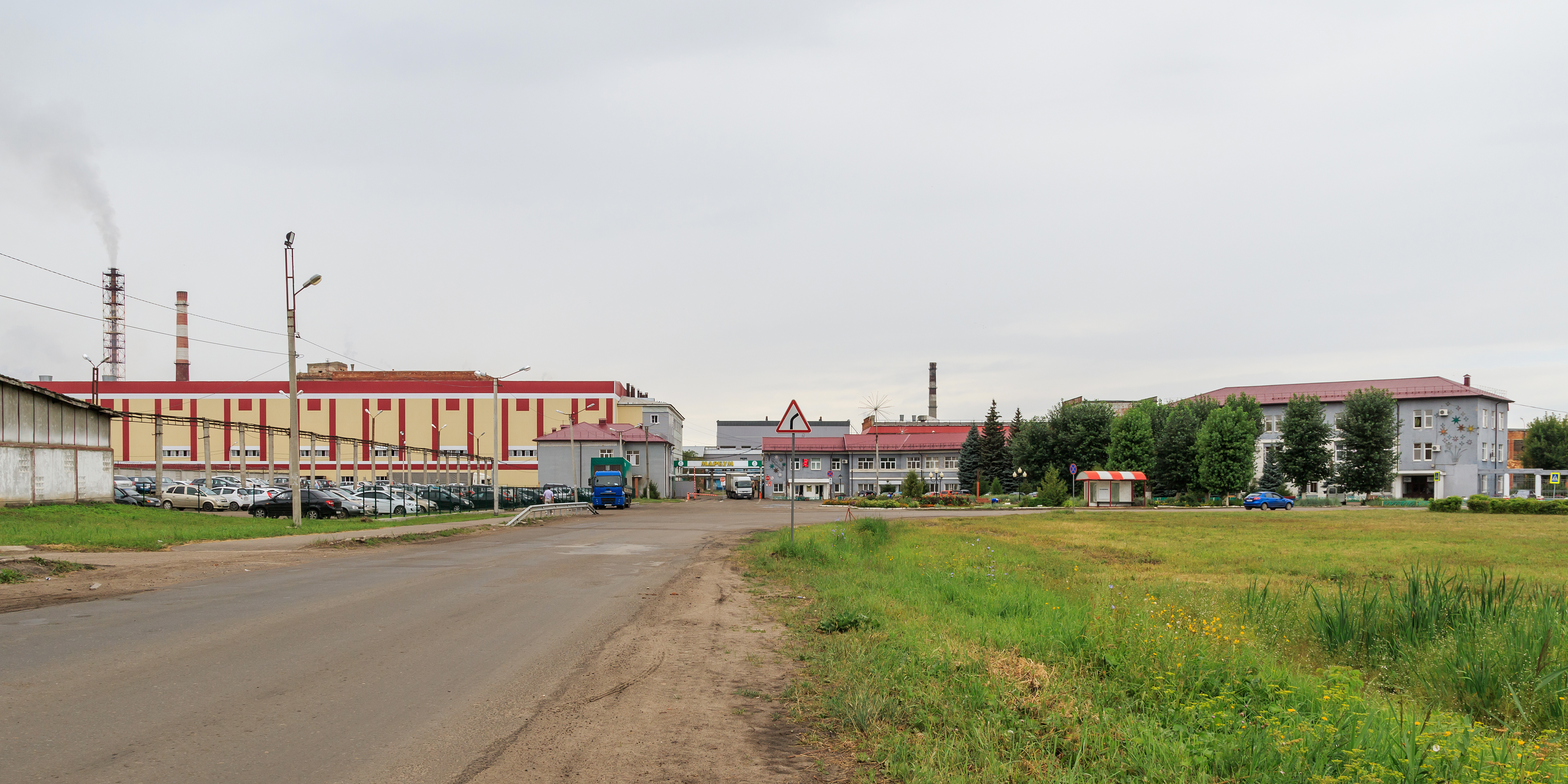 Marbum paper mill in Volzhsk, Mari El, Russia